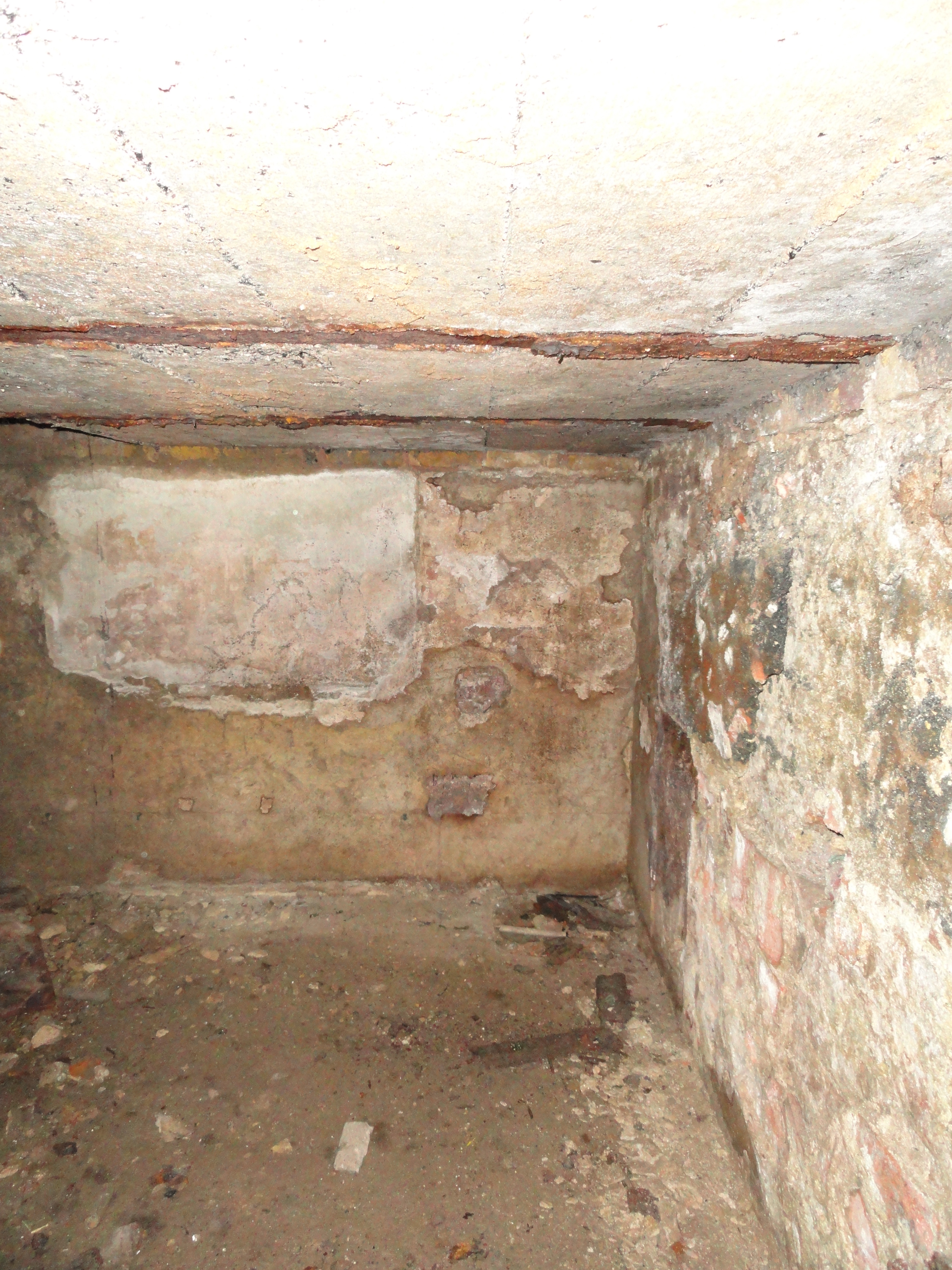 Photo of covered-over 'Essex bath', Norfolk Hotel basement, Surrey Street